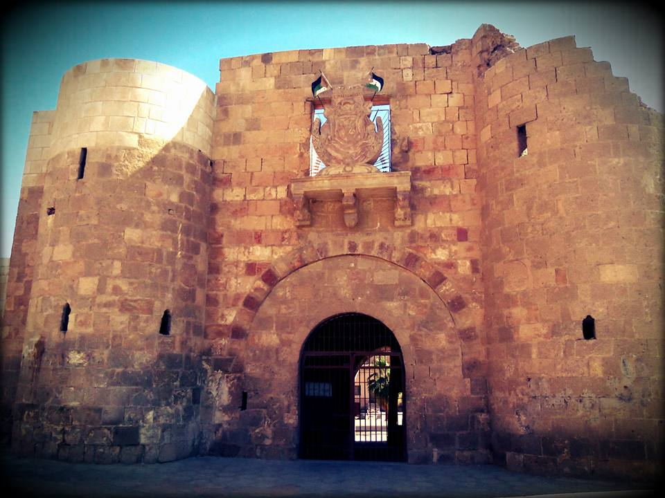 القلعة المملوكية في العقبة